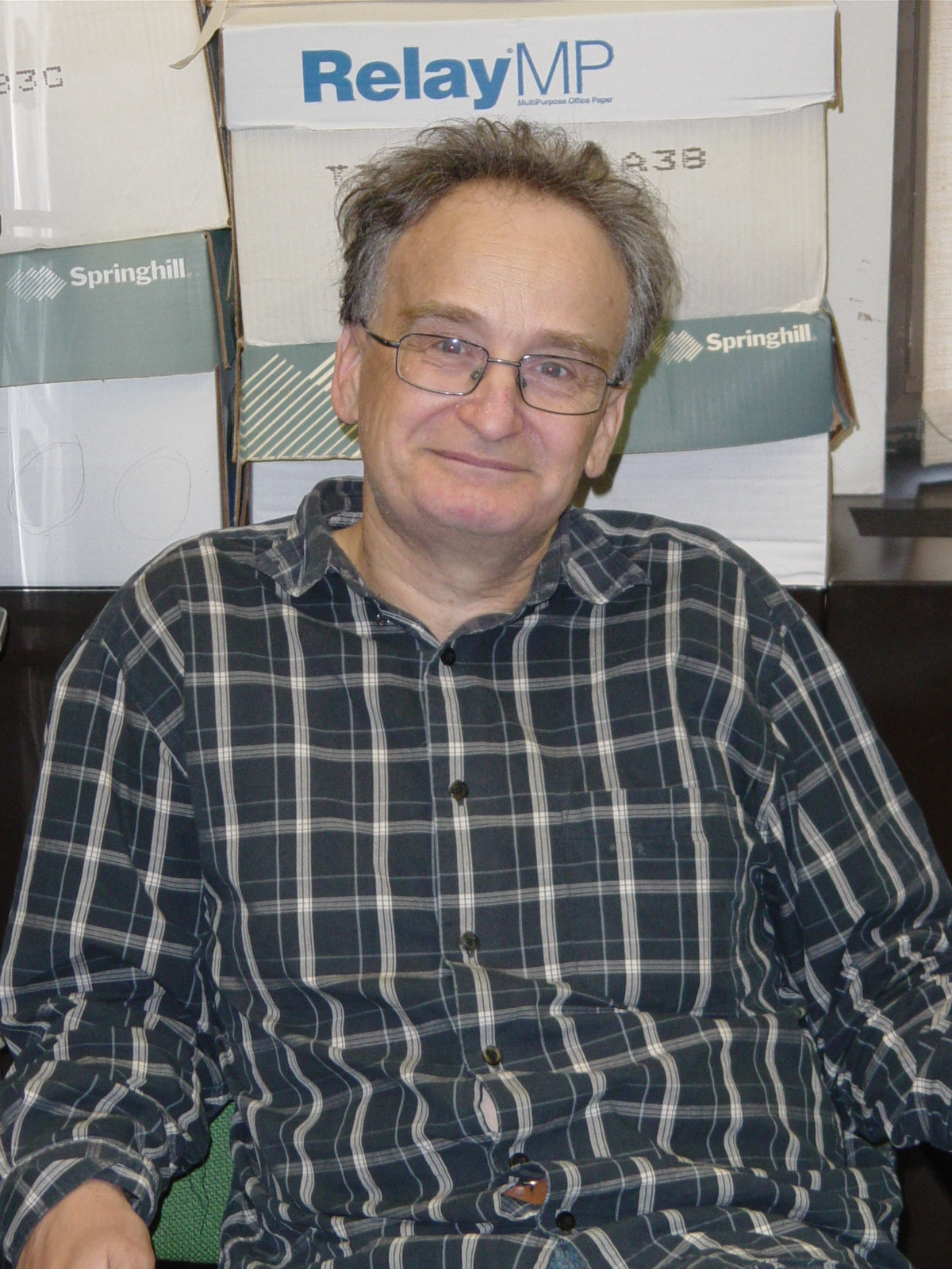 Saharon Shelah in Shelah's office in Hill Center, Dept of Math, Rutgers University, Piscataway, NJ.